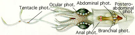 Lycoteuthis "diadema"